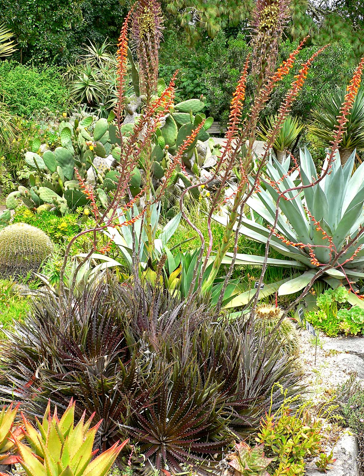 Photo of Dyckia platyphylla at the San Francisco Botanical Garden